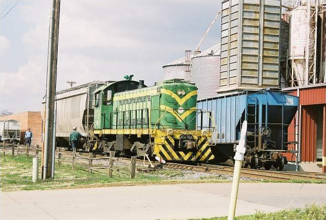 Alexander Railroad #7, Alco S-3, photographed in March 2004 at the Deal Rite Feeds plant in Statesville, North Carolina